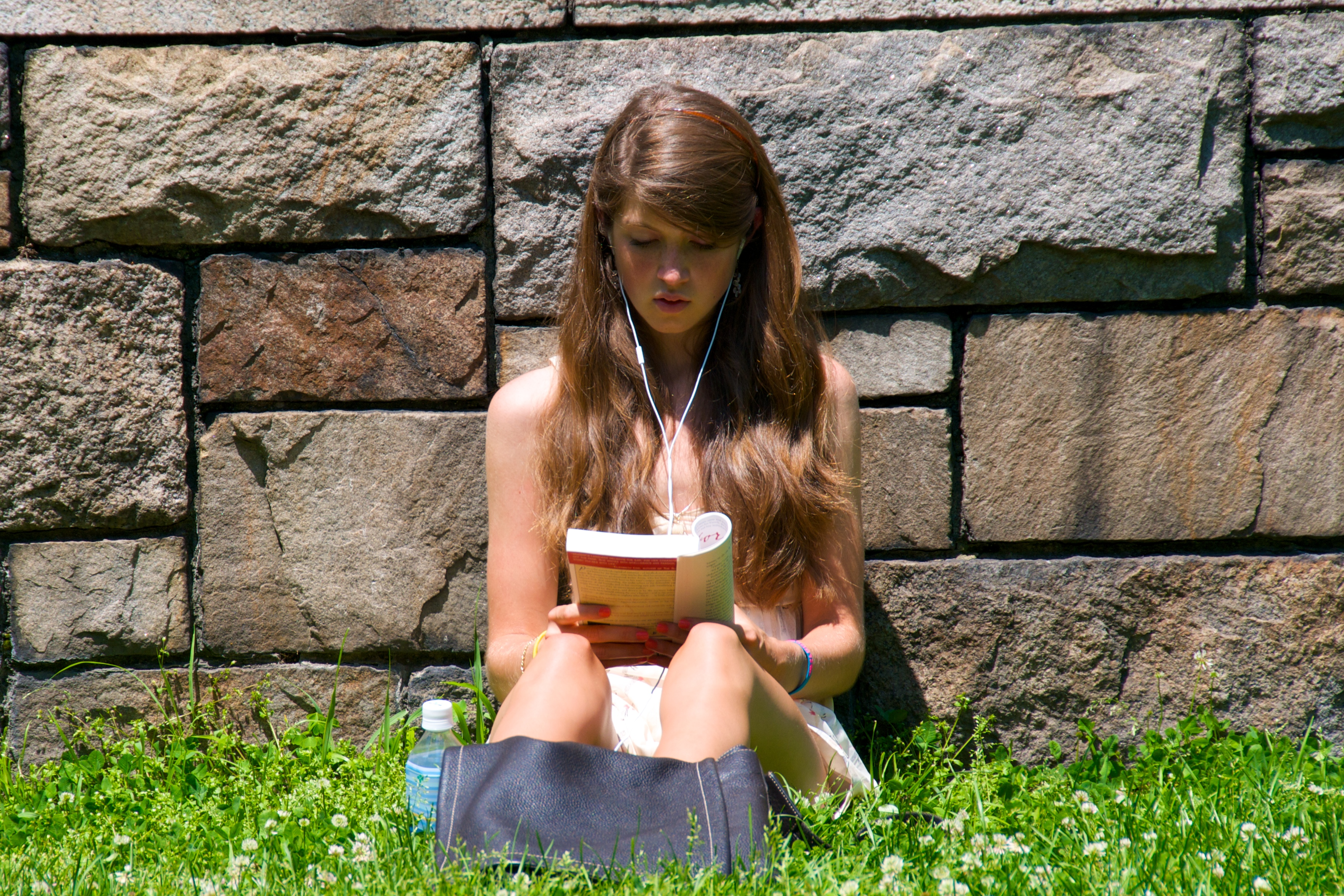 This young woman was taking advantage of the mid-day sunshine and the warmth of the stone wall along the western edge of Riverside Park, as she listened to music and enjoyed a book...